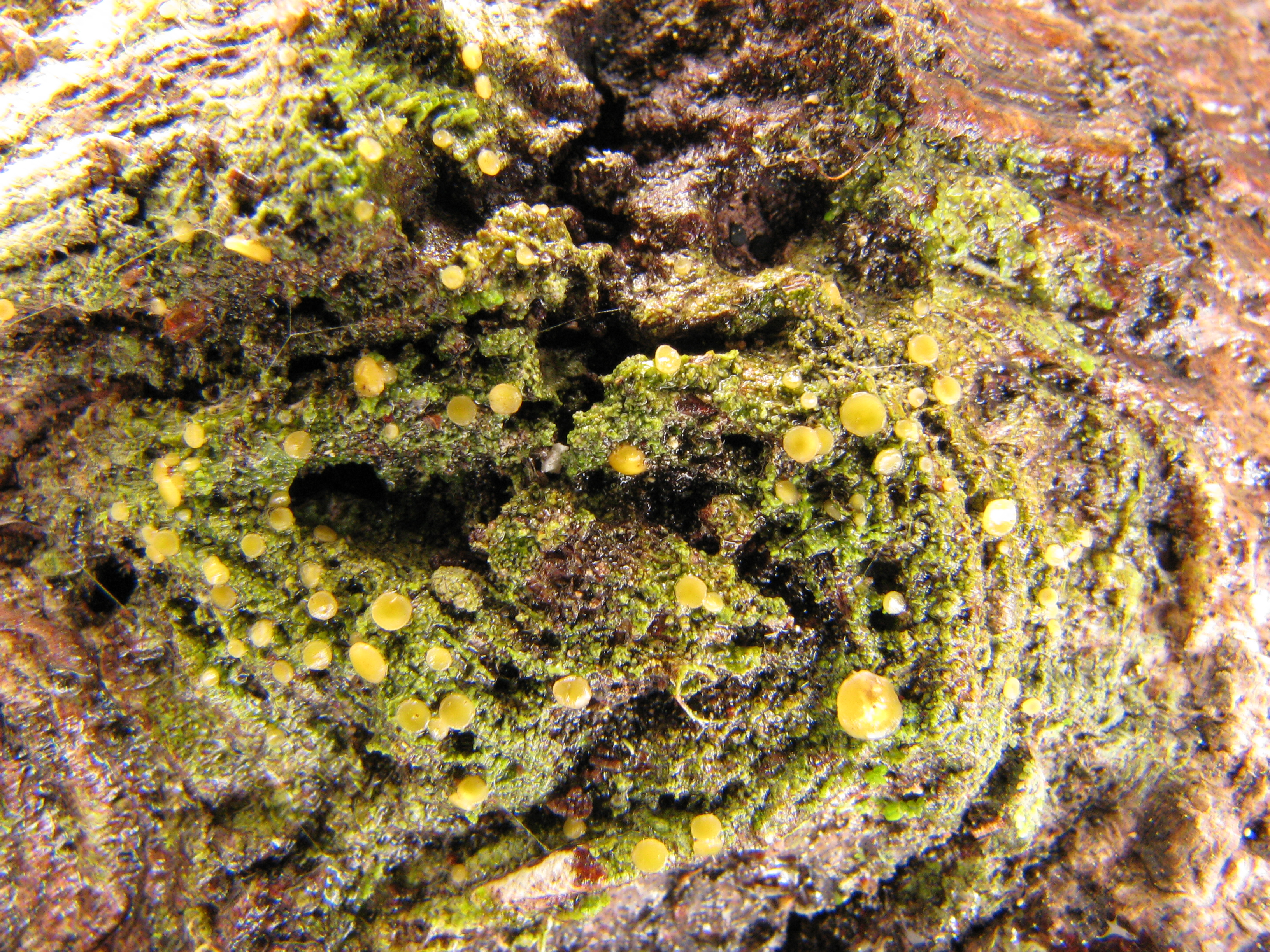 Presumed Orbilia species (possibly Hymenoscyphus). Specimen located in Salt Point State Park, Sonoma County, California, USA